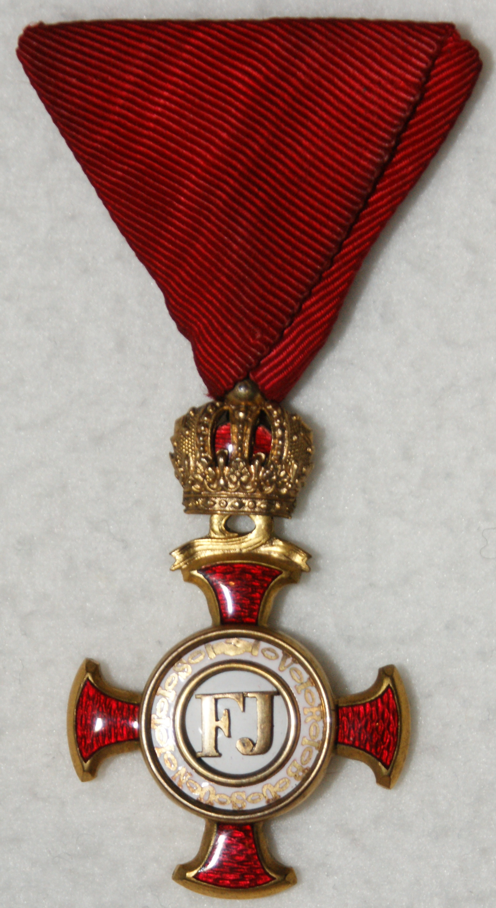 Austrian Golden Cross of Merit with the Crown (1849), front